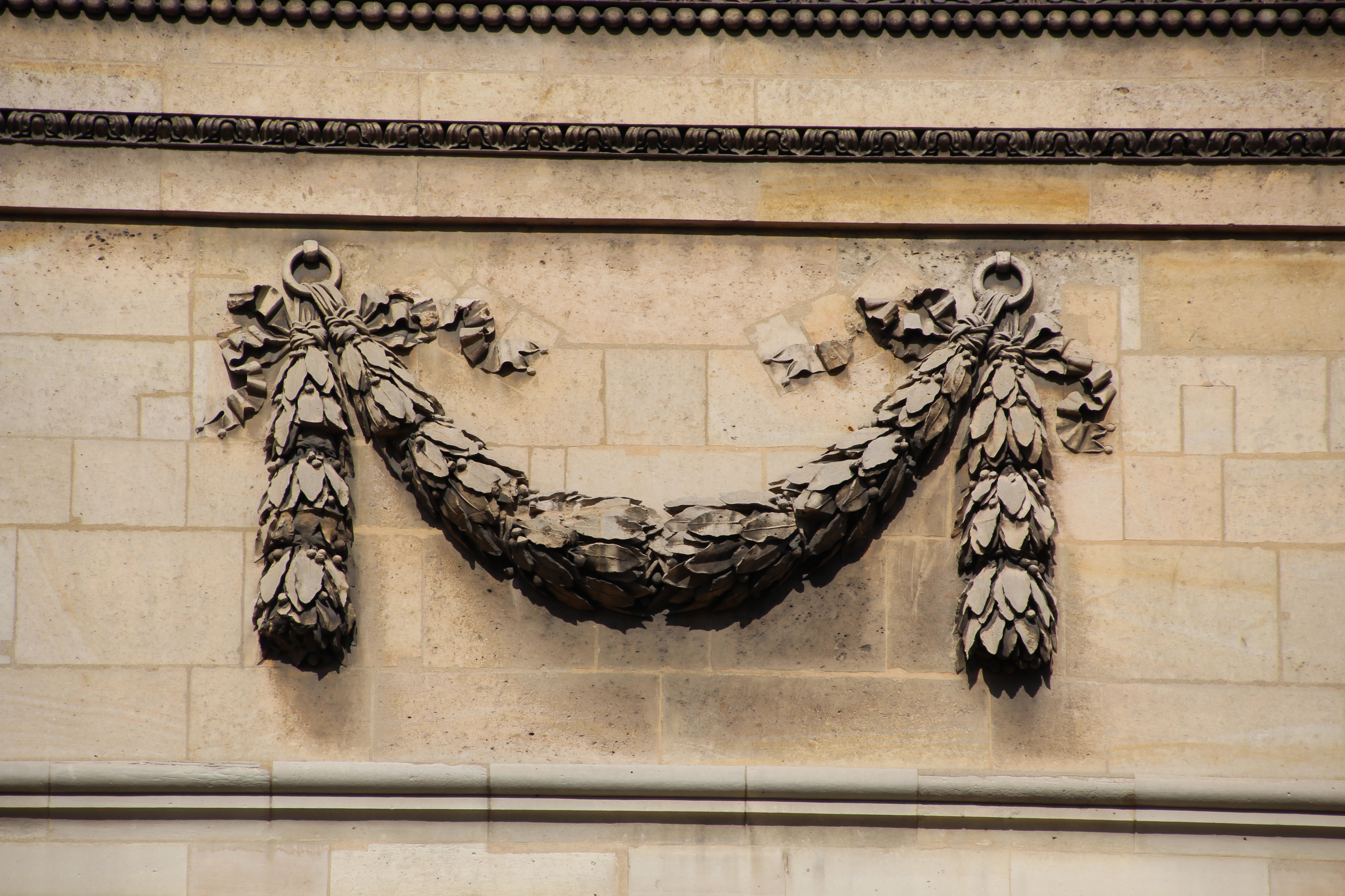 Details of the Panthéon of Paris in 2014.